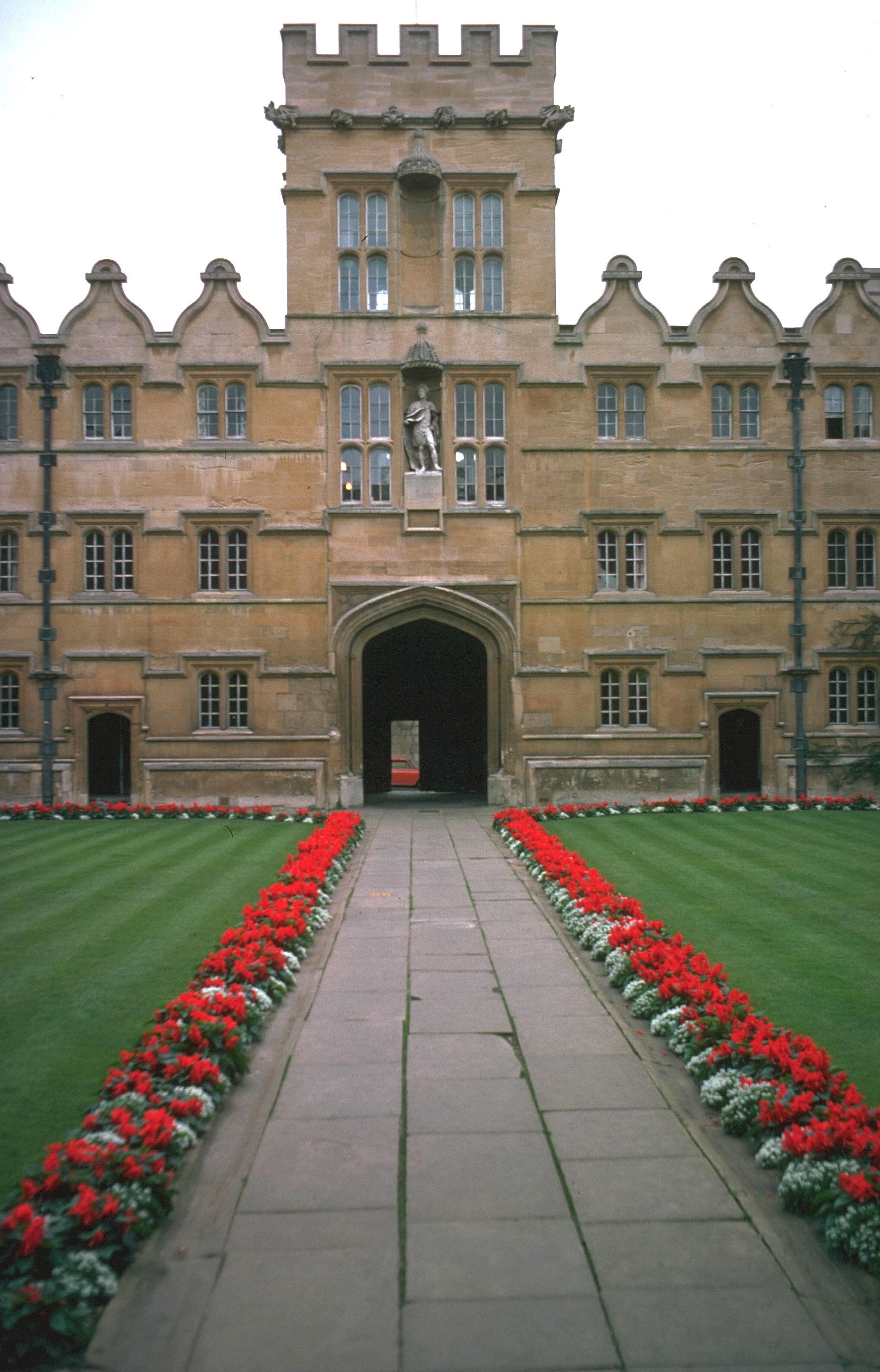 Court yard of University College Oxford